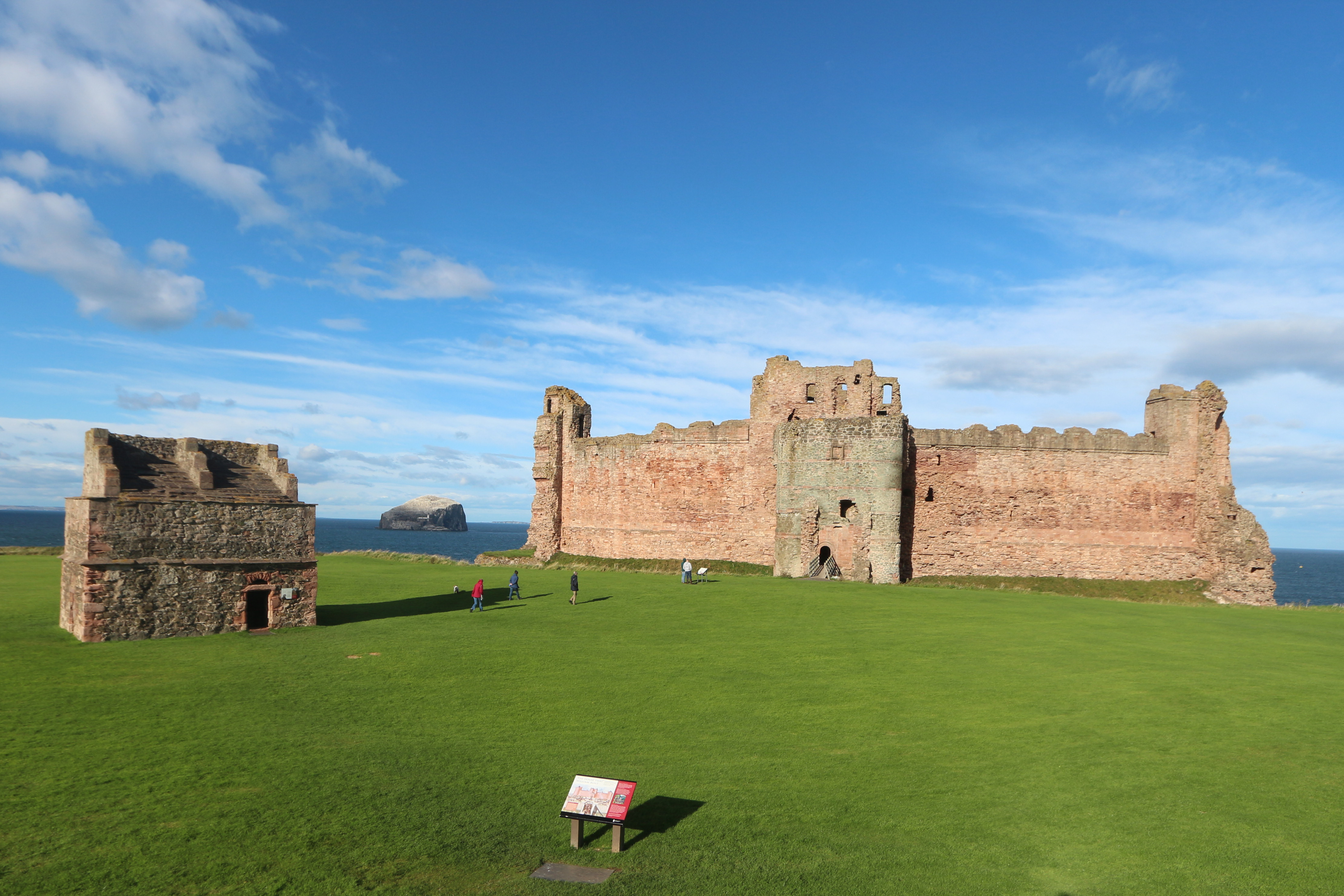 Tantallon Castle Wikidata has entry Q57803 with data related to this item.